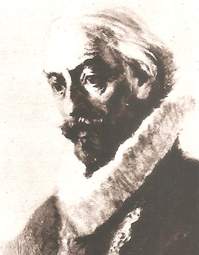 Slovak educationist, philologian, poet, mathematician and musician Vavrinec Benedikt Nedožerský (1555 – 1615), portrait